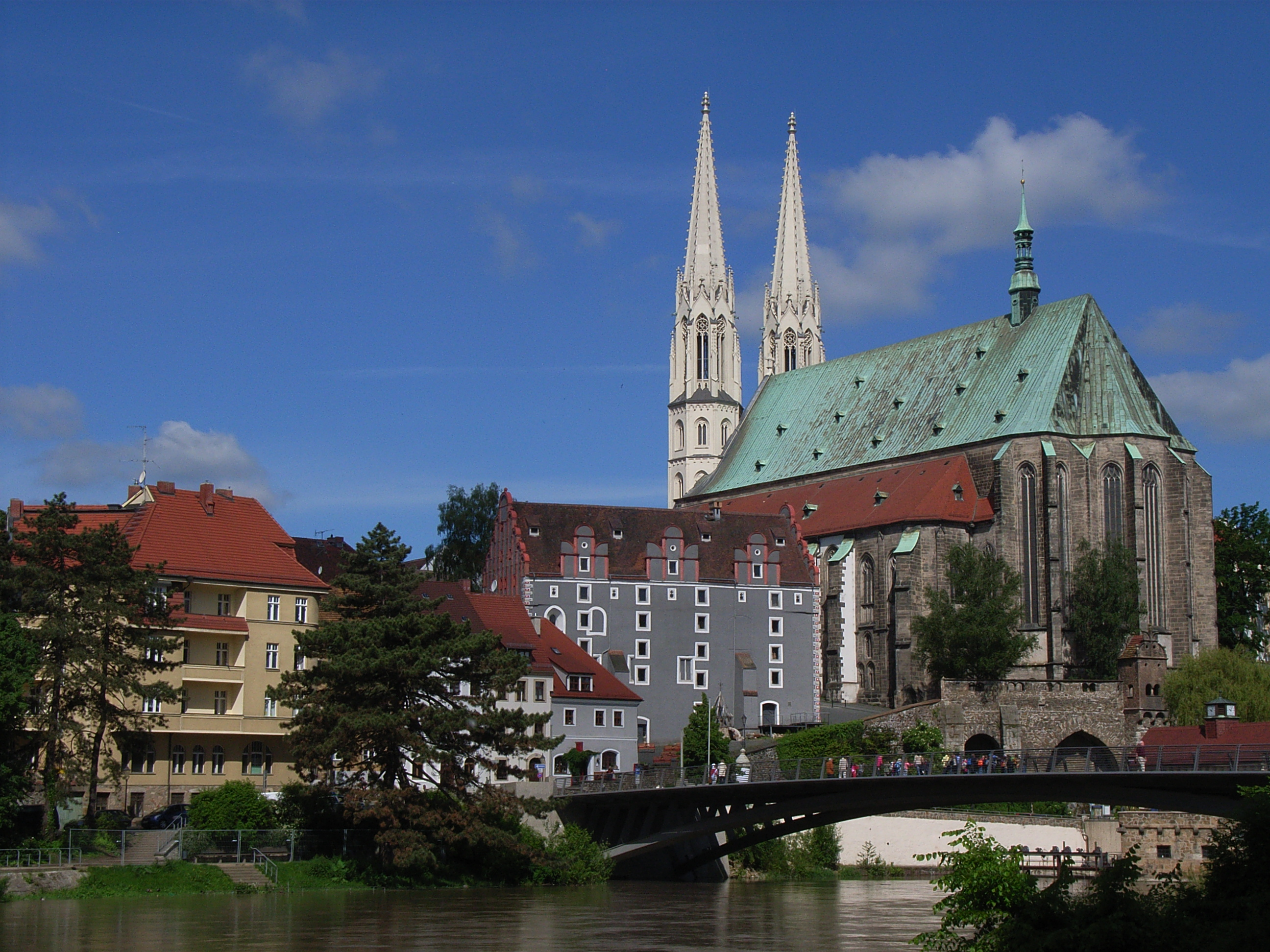 St. Peter and Paul church an the Waidhaus on the river Neisse in Görlitz, Saxony